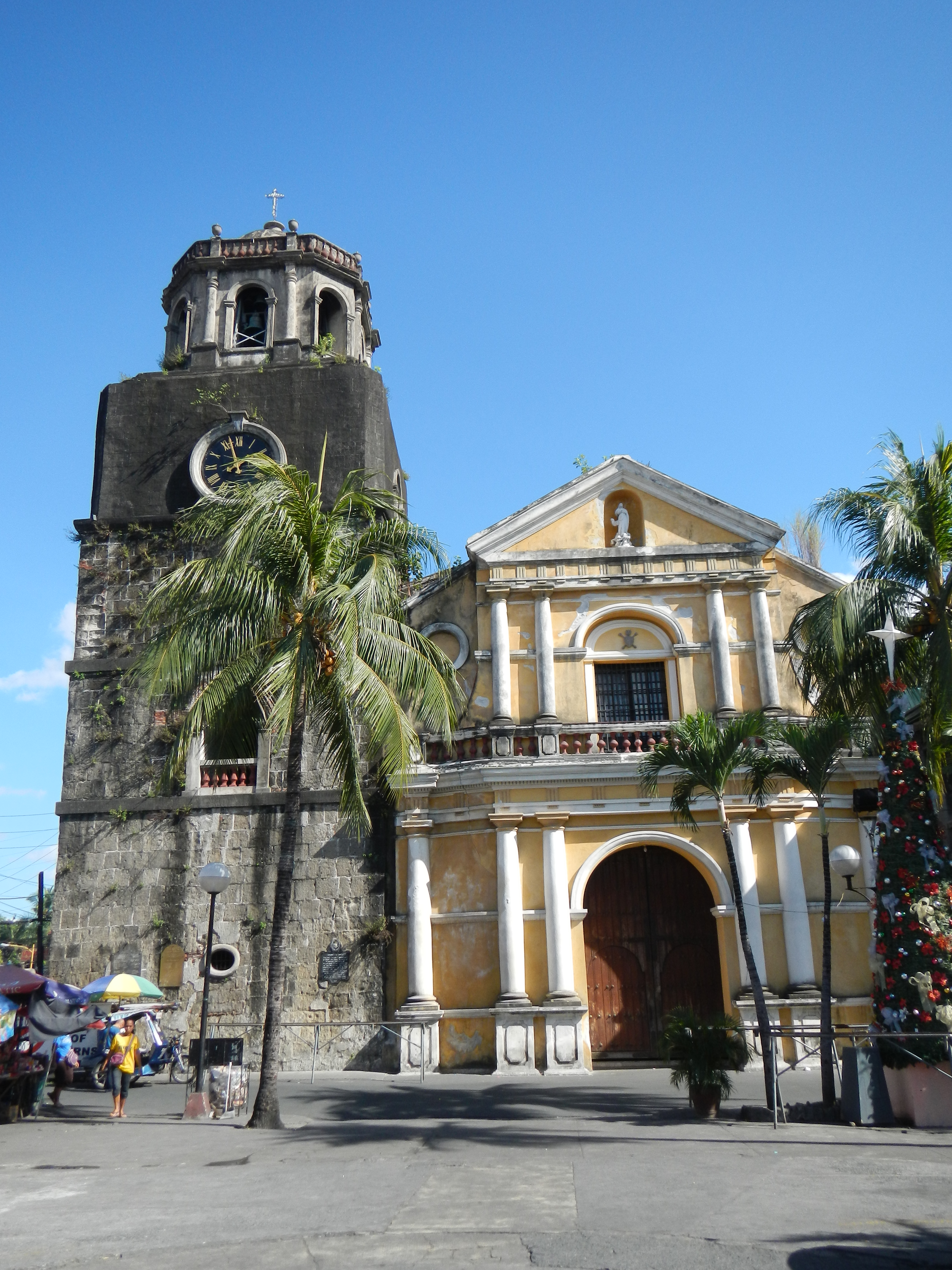 Upload Wizard photos of the -(general description of landmarks, town, church) - National Cultural Treasure and Heritage, the ancient - Pasig Cathedral[1] : I desire to again photograph this as New Version, since before it was dark foggy smoggy and bad light, now it is full sun and glorious.[2] Founded July 2, 1573 Dedication Our Lady of the Immaculate Conception of Pasig Diocese of Pasig Metropolitan Archdiocese of Manila Most Rev. Mylo Hubert C. Vergara, DD Very Rev. Fr. Orlando B. Cantillon. VG.